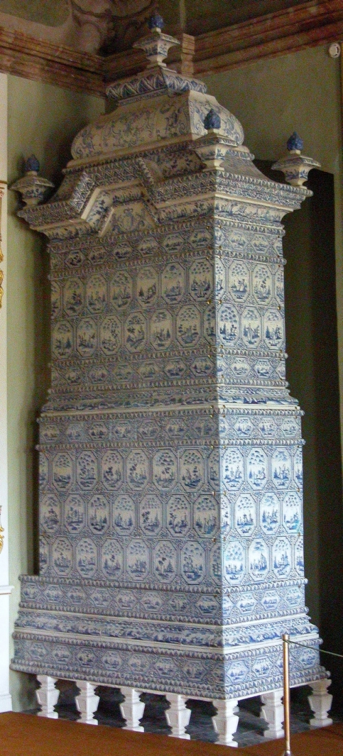 Pilsrundāle, Latvia: Tiled oven.